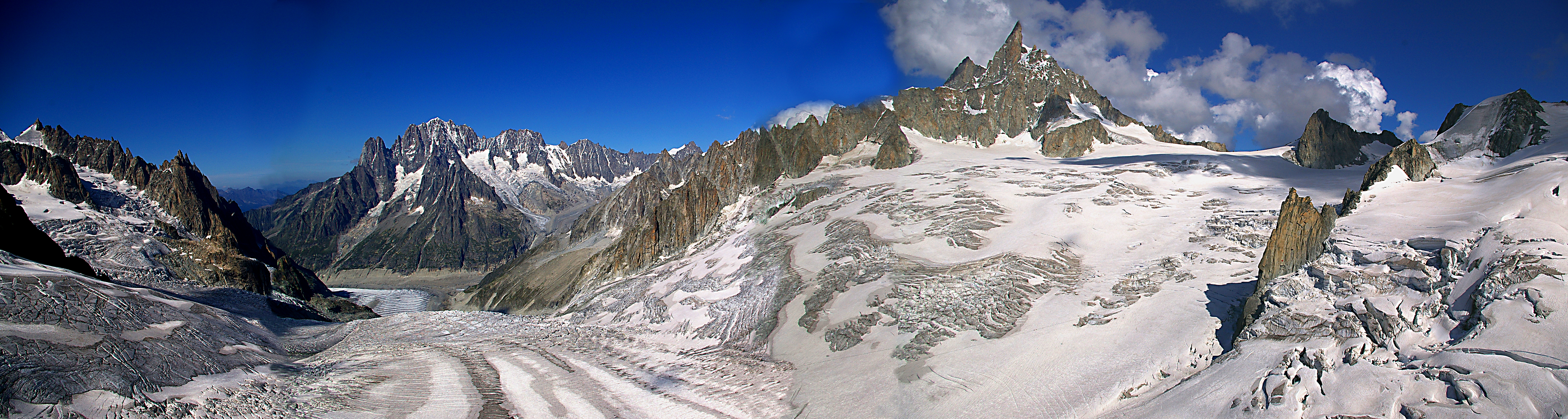 This is a photo of a monument which is part of cultural heritage of Italy.